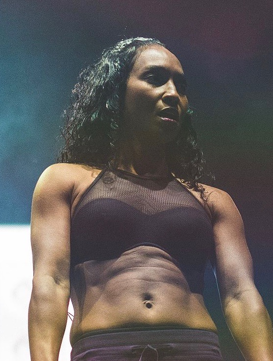 93-5 The Move presents Throwback Bash with TLC, Naughty by Nature and Kardinal Offishall at TD Echo Beach in Toronto on Saturday, September 24th 2016